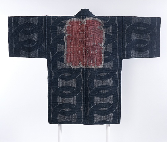 Japan, late Edo period-early Meiji period, 19th century Costumes; outerwear Freehand paste-resist dyeing (tsutsugaki) and hand-painted pigment on plain-weave cotton, cotton thread quilting (sashiko) 35 1/4 x 47 1/2 in. (89.54 x 120.65 cm) Costume Council Fund (M.2000.78) Costume and Textiles